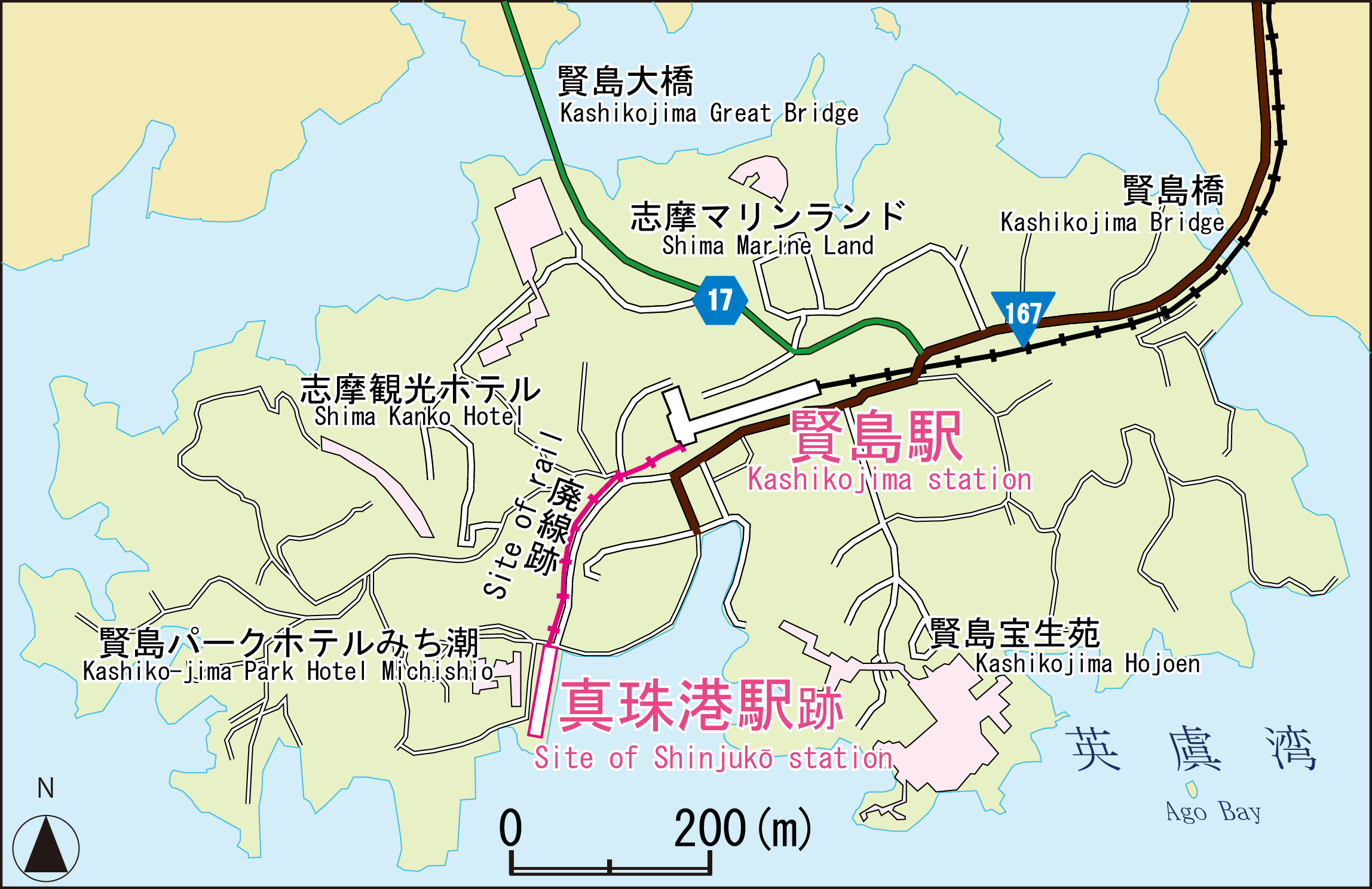 This is a map for the site of Shinjukō station, which is located in Kashiko island, Shima, Mie, Japan. The base map is OpenStreetMap. I also referred to a map created by Geospatial Information Authority of Japan. This map may be incomplete, and may contain errors. Don't rely solely on it for navigation.